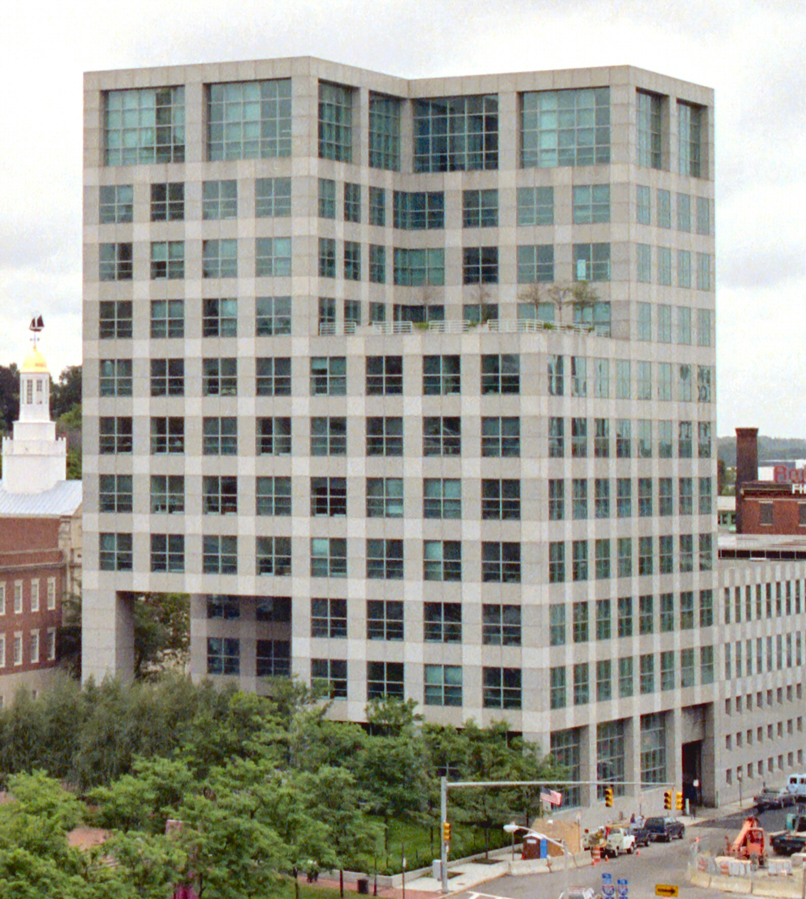 Photo taken by Will Hart on 20-August-1990 from an open office window in the Rhode Island Hospital Trust Building (about five floors up). Looking South East.